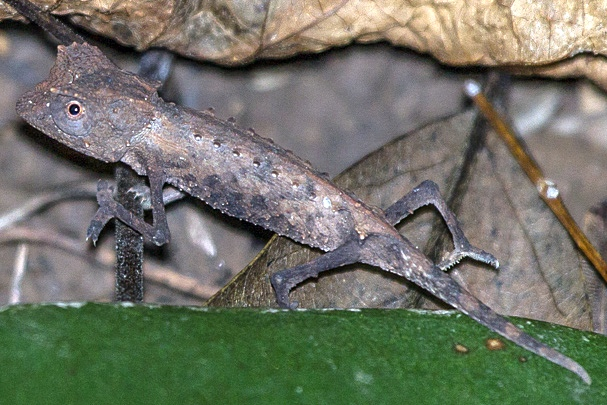 Brookesia minima